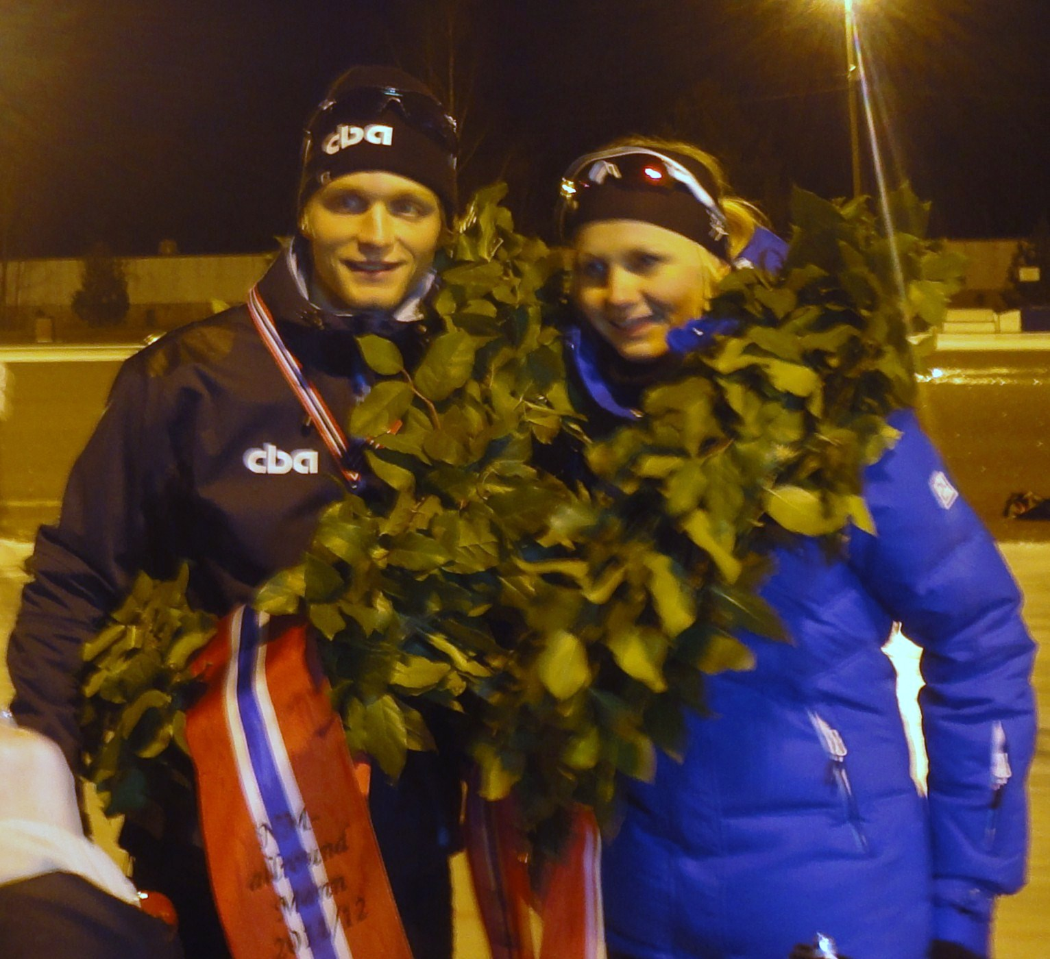 Håvard and Hege Bøkko with each of their laurel wreaths after their victories in the National Championship in speedskating Allround 2012 in Tønsberg, Norway.